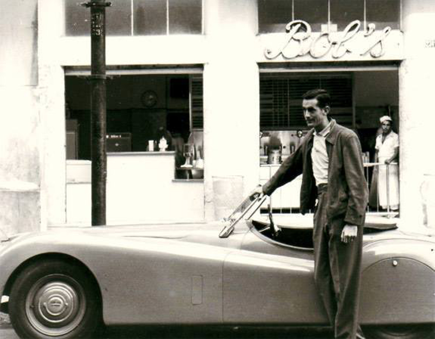 Bob Falkenburg with his Jaguar XK120 in front of the first Bob's ice-cream shop at rua Raimundo Correa, in Copacabana, Rio de Janeiro in 1952